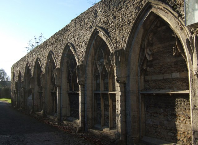 Monks' refectory, Peterborough Cathedral A row of arches dating from the C13 along a walkway linking the Cathedral Yard to Gravel Walk and Bishop's Road.